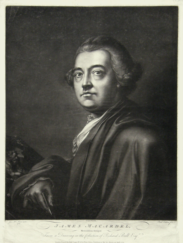 Portrait of James MacArdell (1729?–1765), Irish engraver.